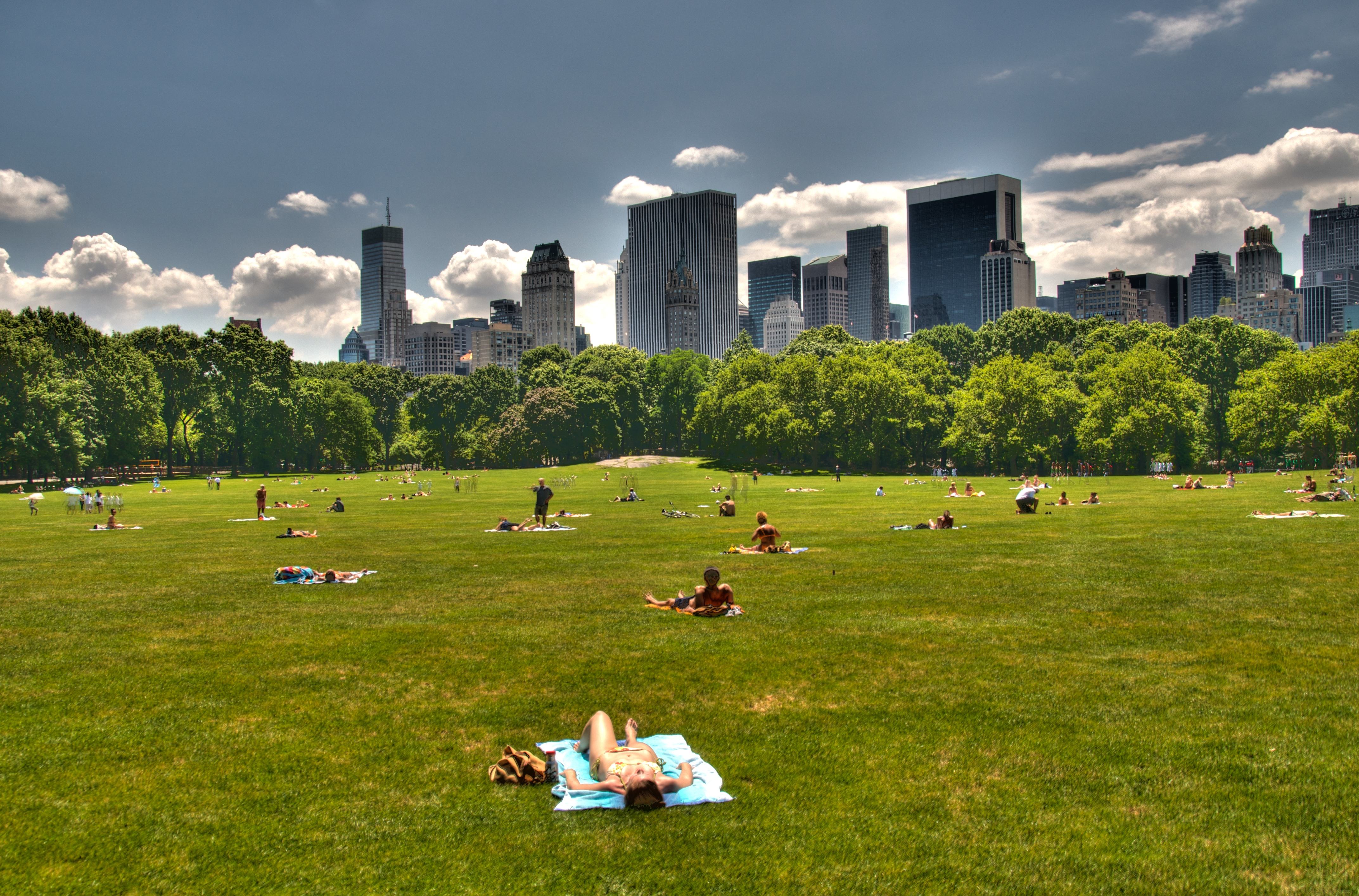 Looking south across the "Sheep Meadow" area at the south end of Central Park.